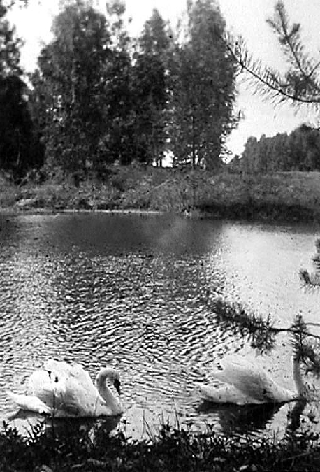 Pond in Arkhangelsk-Tyurikova.